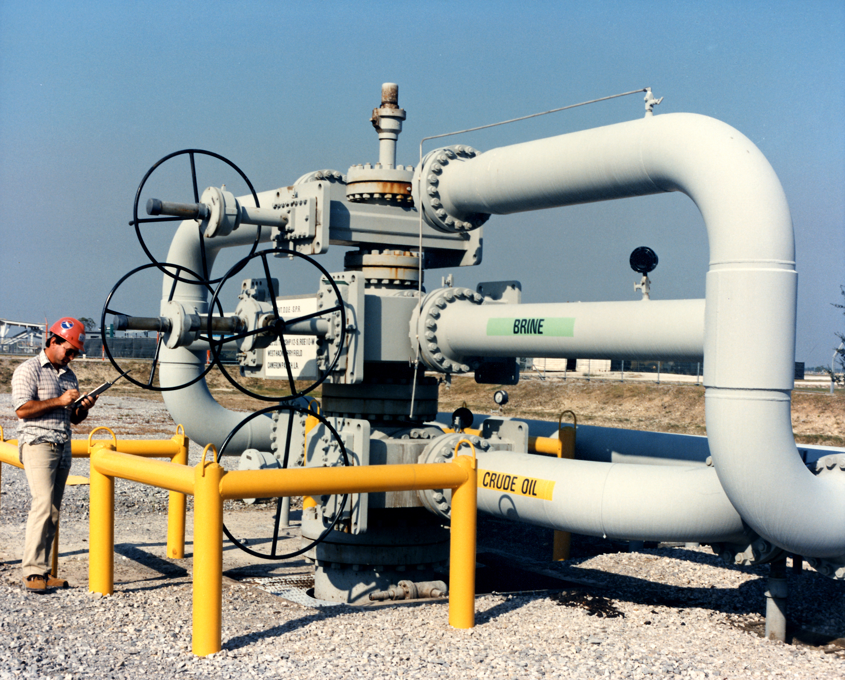 A technician inspects wellhead assembly at the Reserve's West Hackberry site near Lake Charles, LA.